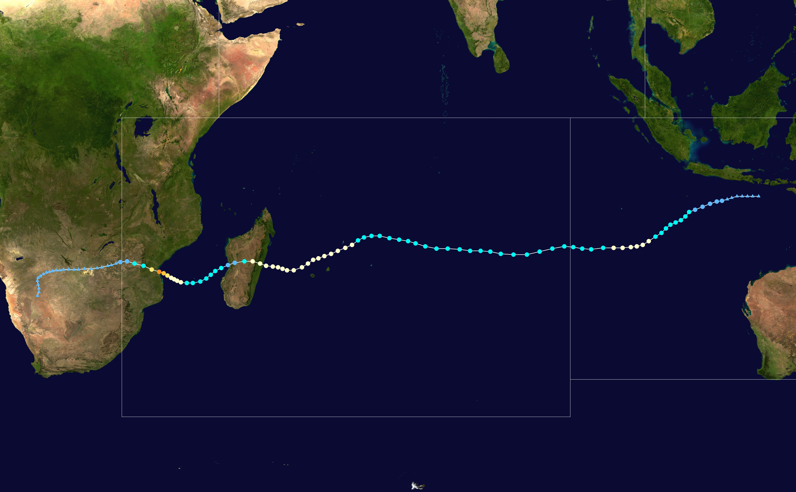 Track map of Intense Tropical Cyclone Leon–Eline of the 1999-2000 South-West Indian Ocean cyclone season. The points show the location of the storm at 6-hour intervals. The colour represents the storm's maximum sustained wind speeds as classified in the Saffir–Simpson scale (see below), and the shape of the data points represent the nature of the storm, according to the legend below. Saffir–Simpson scale Tropical depression≤38 mph≤62 km/h Category 3111–129 mph178–208 km/h Tropical storm39–73 mph63–118 km/h Category 4130–156 mph209–251 km/h Category 174–95 mph119–153 km/h Category 5≥157 mph≥252 km/h Category 296–110 mph154–177 km/h Unknown Storm type Tropical cyclone Subtropical cyclone Extratropical cyclone / Remnant low / Tropical disturbance